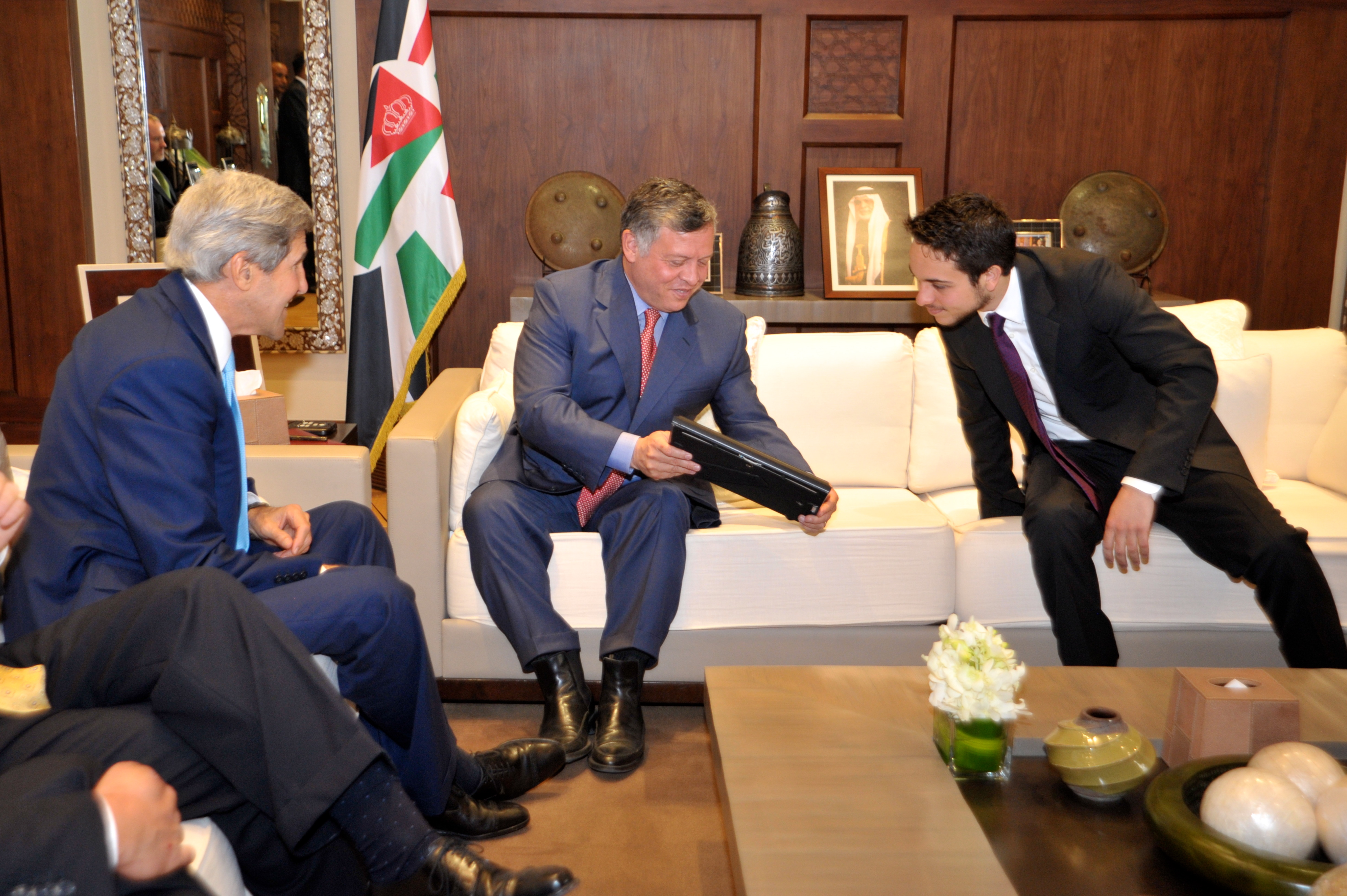 King Abdullah II shows his son, Crown Prince Hussein, a photo given to them by U.S. Secretary of State John Kerry at the start of a meeting at Al Hummar Palace in Amman, Jordan, on July 17, 2013. [State Department photo/ Public Domain]